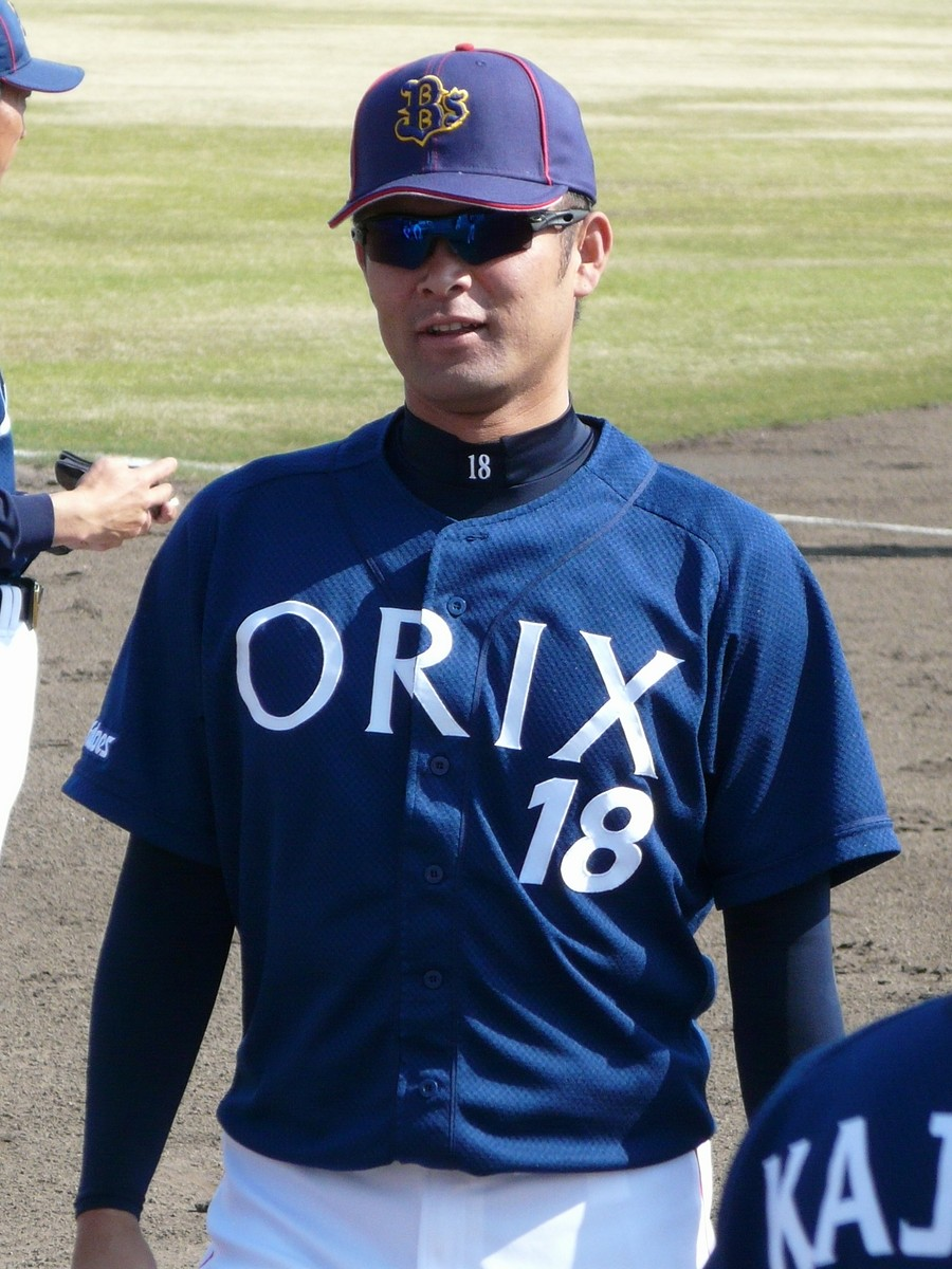 Kazuo Yamaguchi